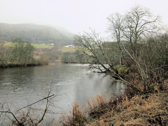 Looking down the Tay Taken from the footpath between Aberfeldy and Grandtully on a cold wet sleety day. Killiechassie estate is on the other side of the river, with the house outside of the picture on the left.